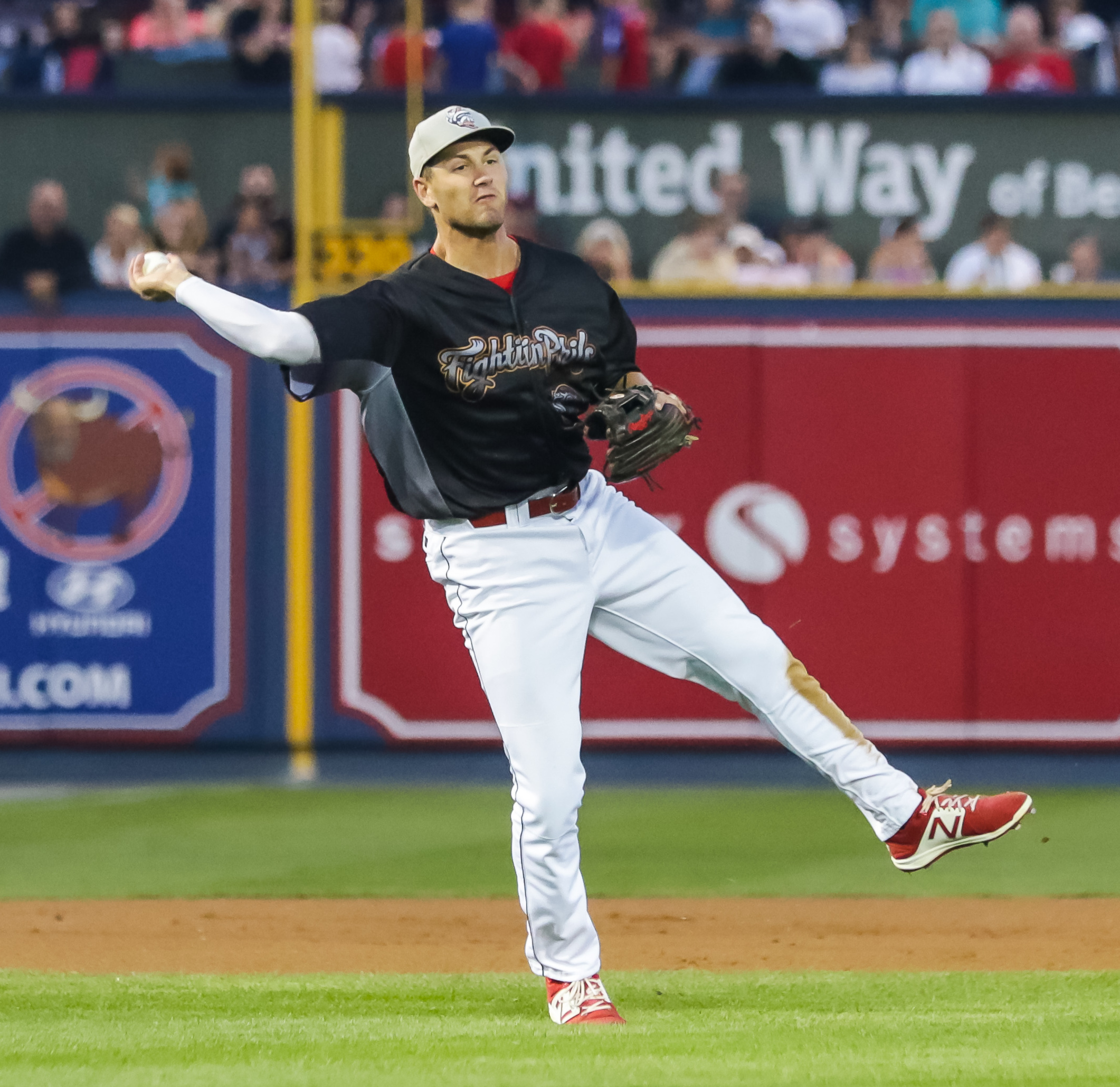 Mitch Walding of the Reading Fightin Phils fields and throws across the infield during a 2017 game in FirstEnergy Stadium in Reading.